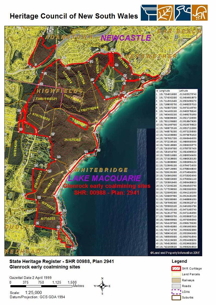 Glenrock early coalmining sites: SHR Plan No 2941